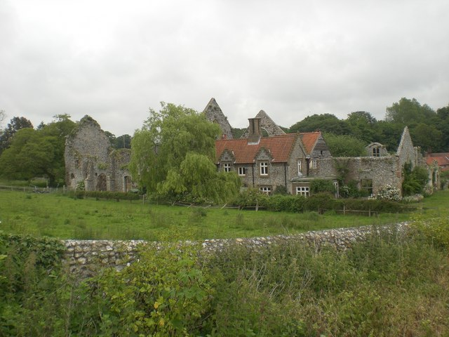 The ruin of St Mary's Friary, Walsingham, Norfolk, England, with a later house built within it